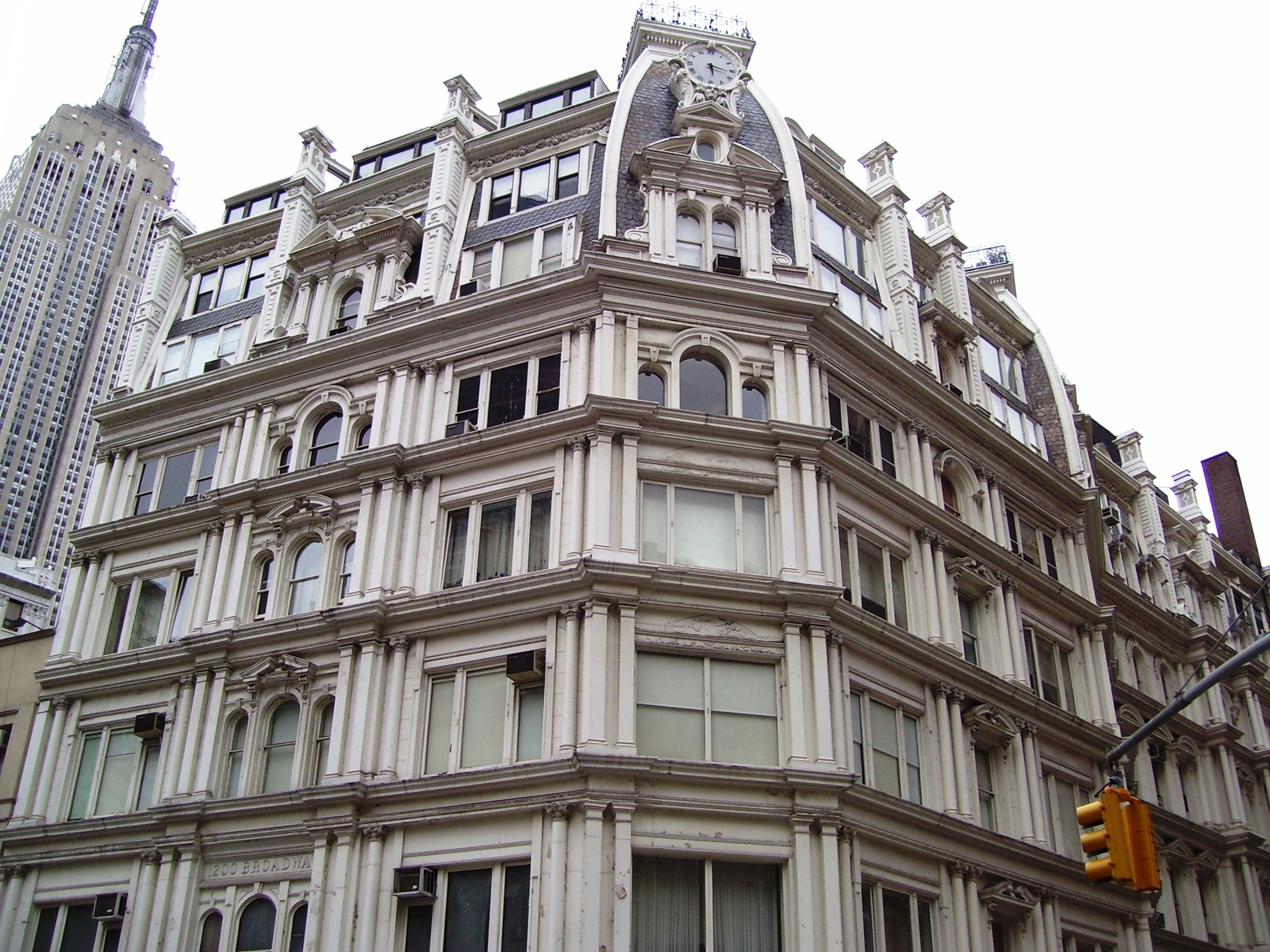 The Gilsey House Hotel at 1200 Broadway in the NoMad district of Manhattan, New York, with the Empire State Buuilding in the background